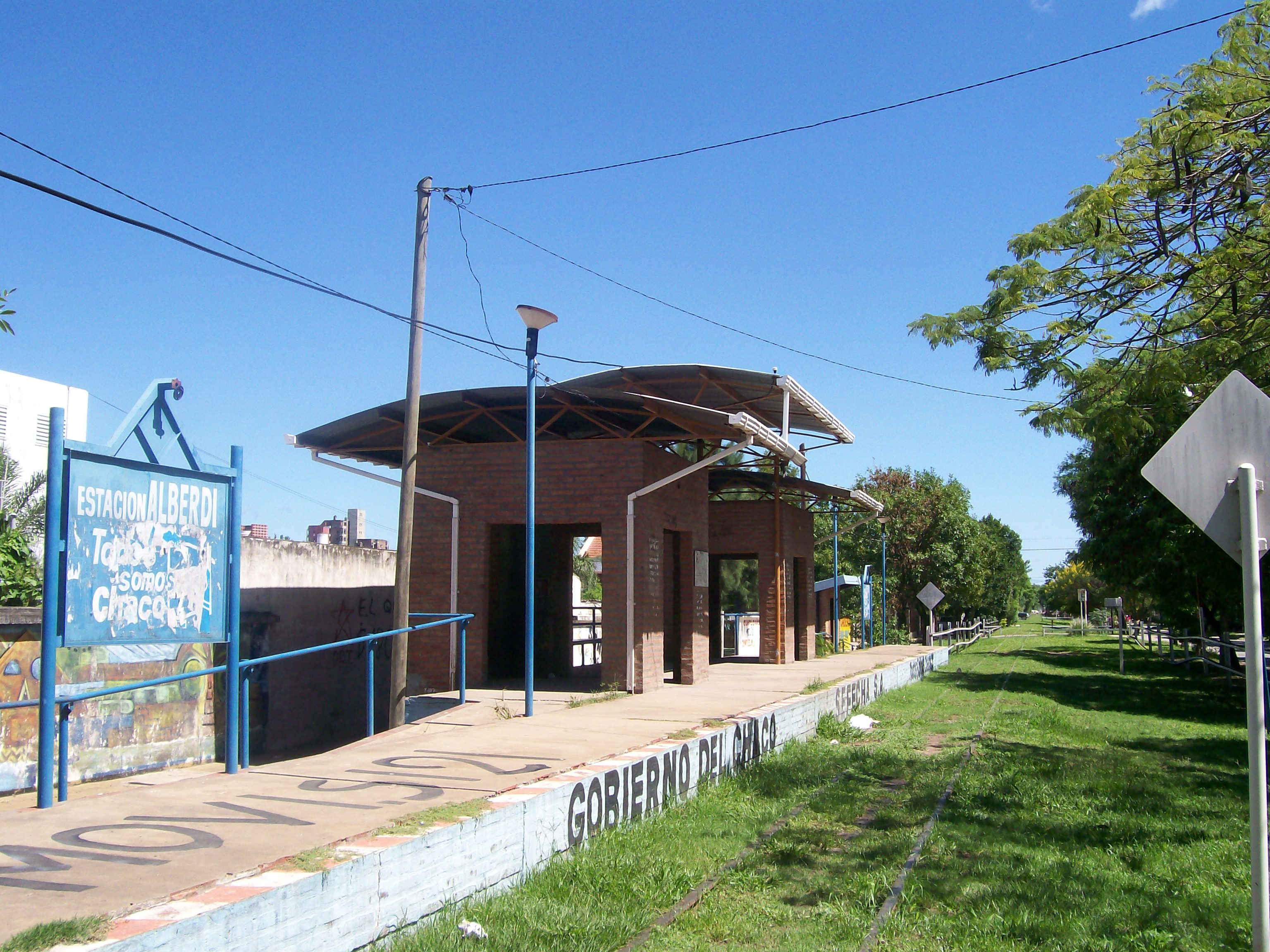 Alberdi station in SEFECHA urban railway. Alberdi is the closest station to Resistencia's main square, just 4 blocks away. It only serves as station for people, not for loading.